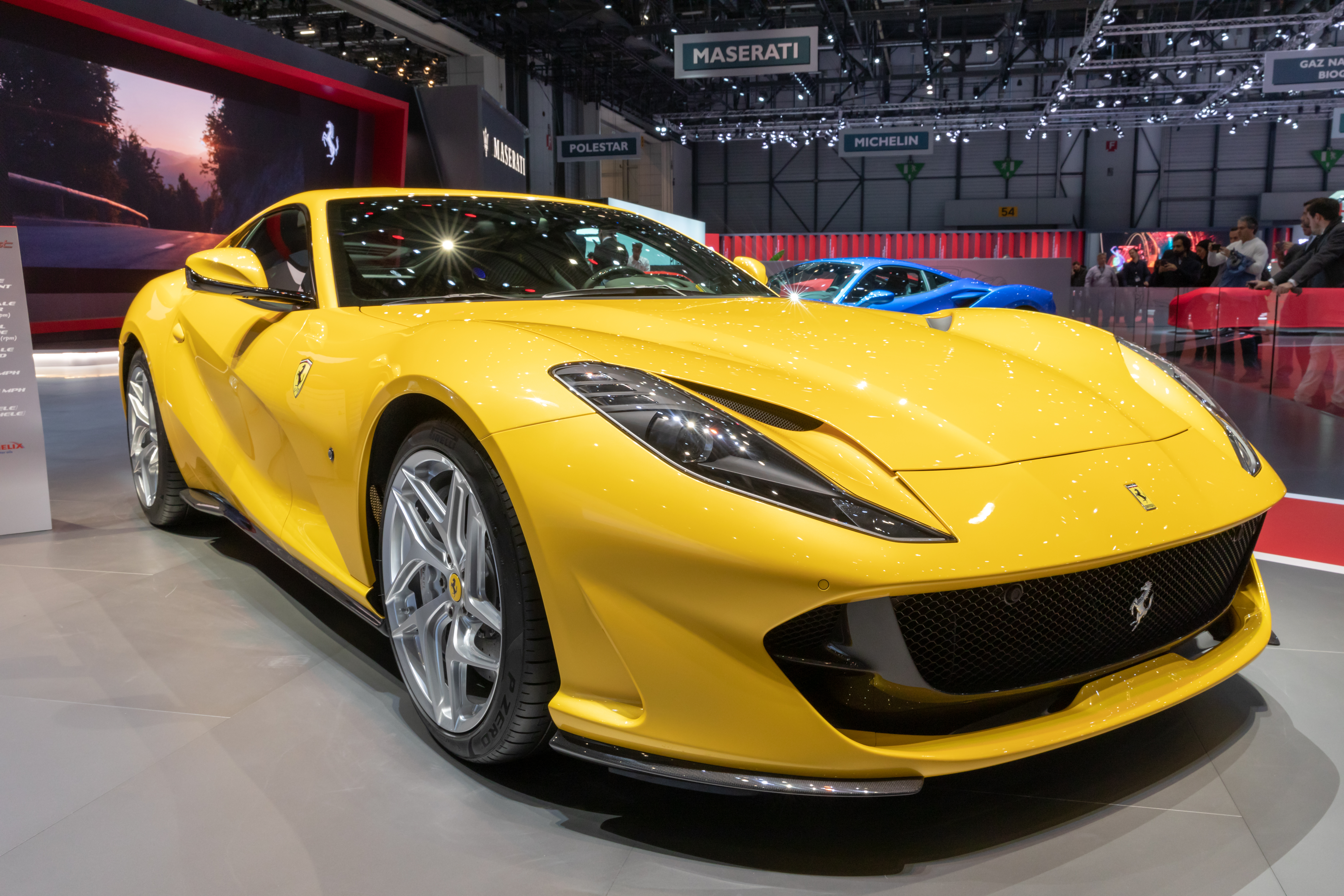 yellow Ferrari 812 Superfast at Geneva International Motor Show 2019, Le Grand-Saconnex